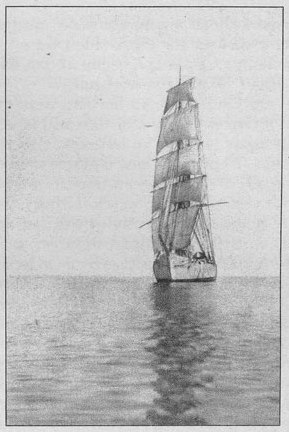 View of the Galilee under sail while under charter to the Department of Terrestrial Magnetism